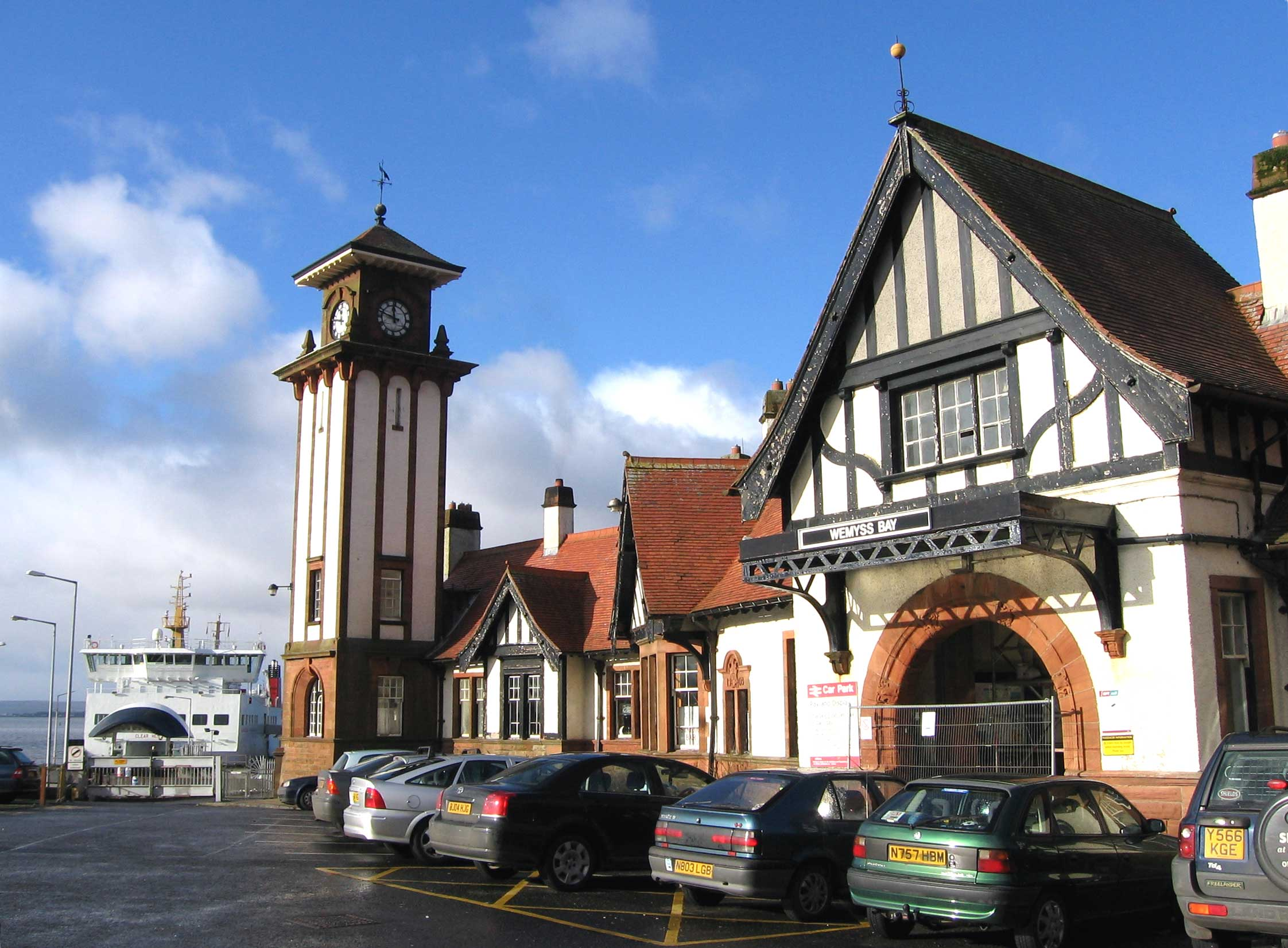 Wemyss Bay railway station and pier, with the Caledonian MacBrayne ferry MV Bute at the linkspan.